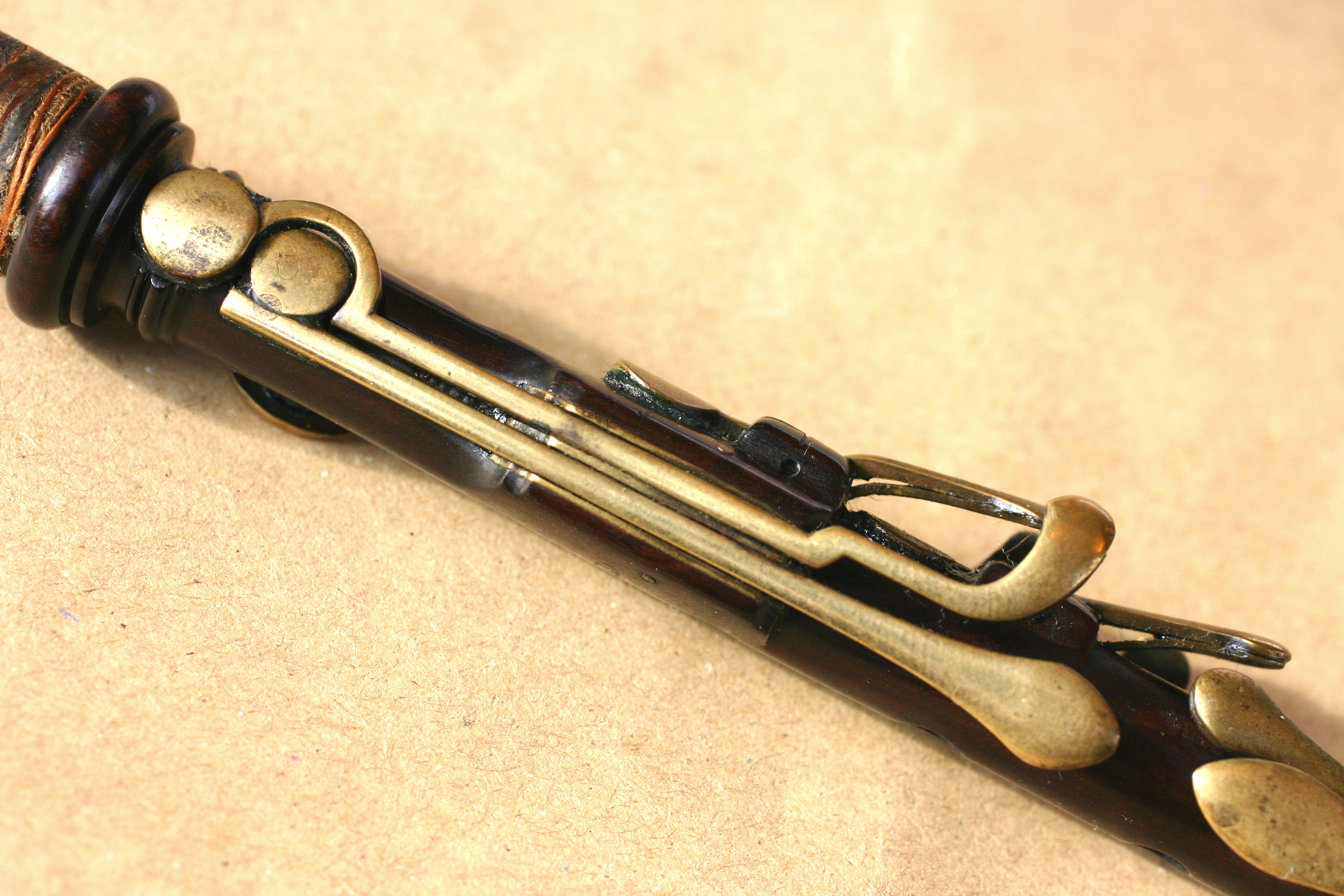 Detail of keywork on a 14-key Northumbrian smallpipe chanter by Robert Reid.